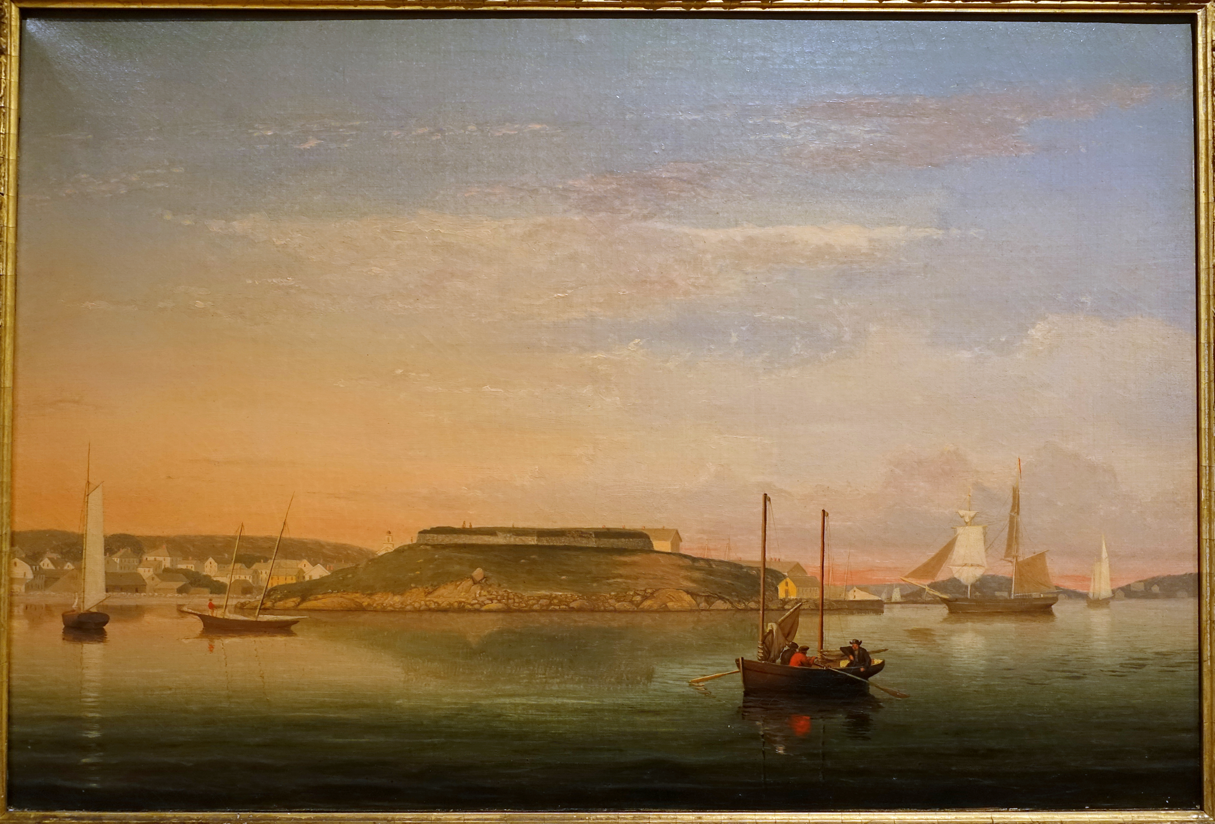 Exhibit in the Cape Ann Museum - Gloucester, Massachusetts, USA. Painting of Watch House Point, Gloucester, Massachusetts by Fitz Henry Lane, showing Fort Defiance and some ships.